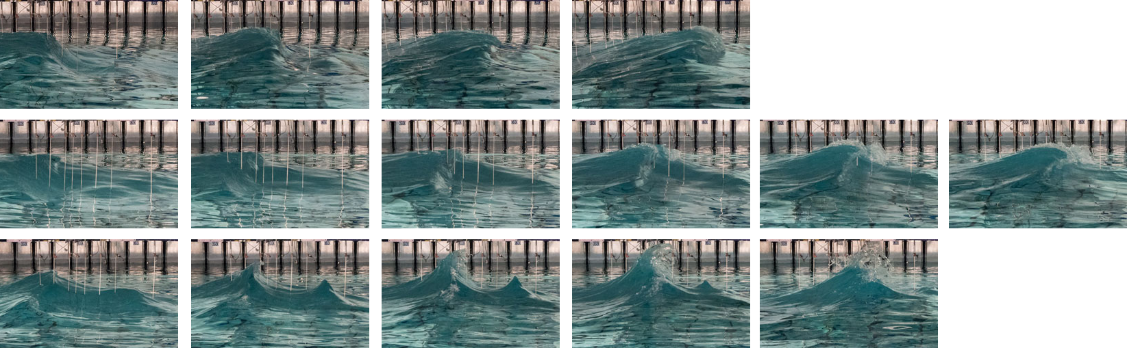 Images from the 2019 simulation of the Draupner wave, showing how the steepness of the wave forms, and how the crest of a rogue wave breaks, when waves cross at different angles. In the first row (0 degrees), the crest breaks horizontally and plunges, limiting the wave size. In the middle row (60 degrees), there is somewhat upward lifted breaking behavior In the third row (120 degrees), described as the most accurate simulation achieved of the Draupner wave, the wave breaks upward, as a vertical jet, and the wave crest height is not limited by breaking.